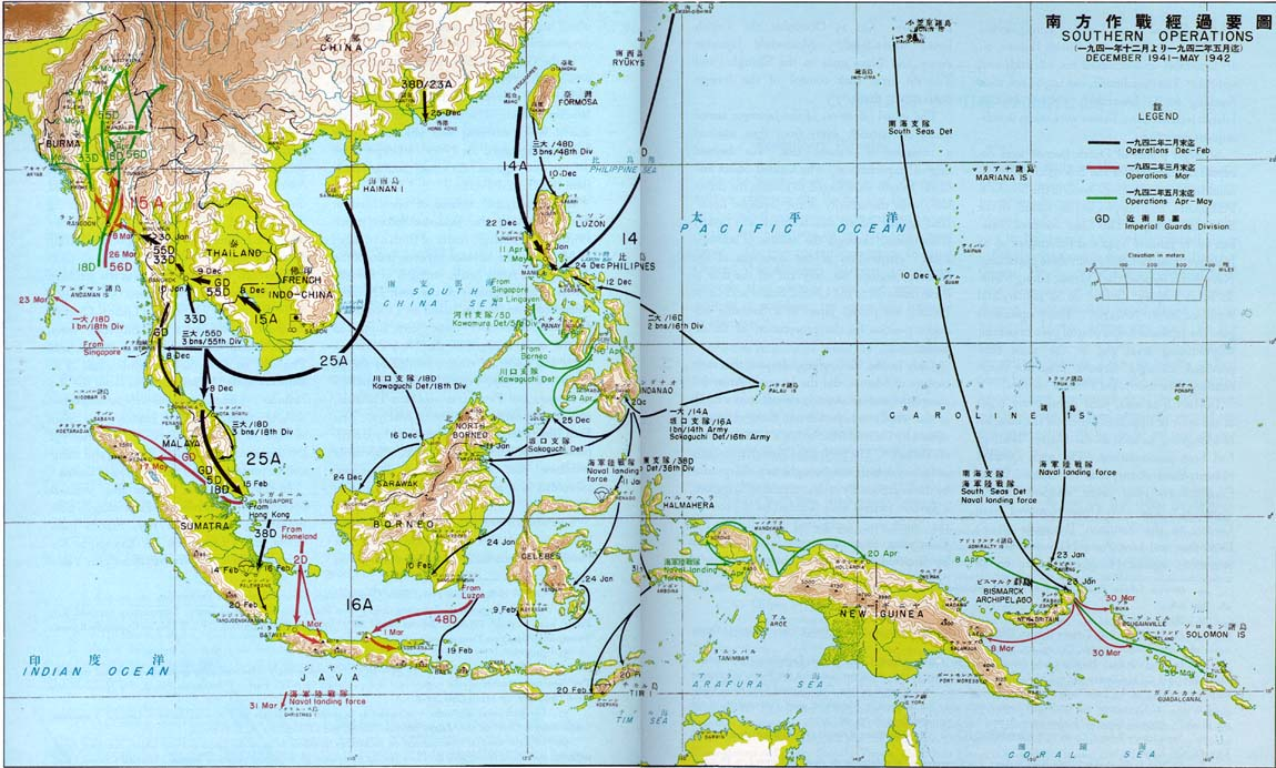 Japanese Southern Operations, December 1941-May 1942